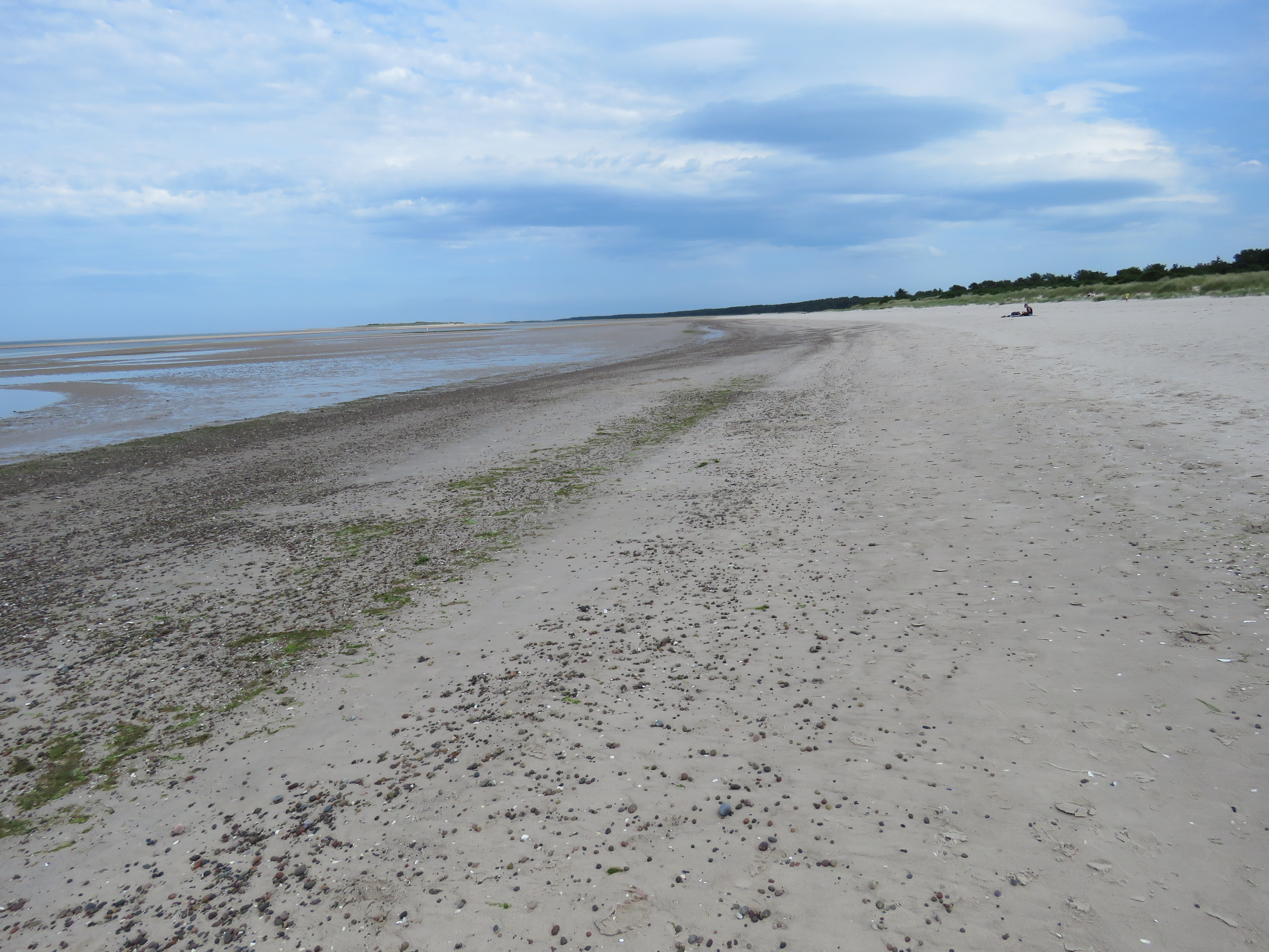 Culbin Sands, Scotland